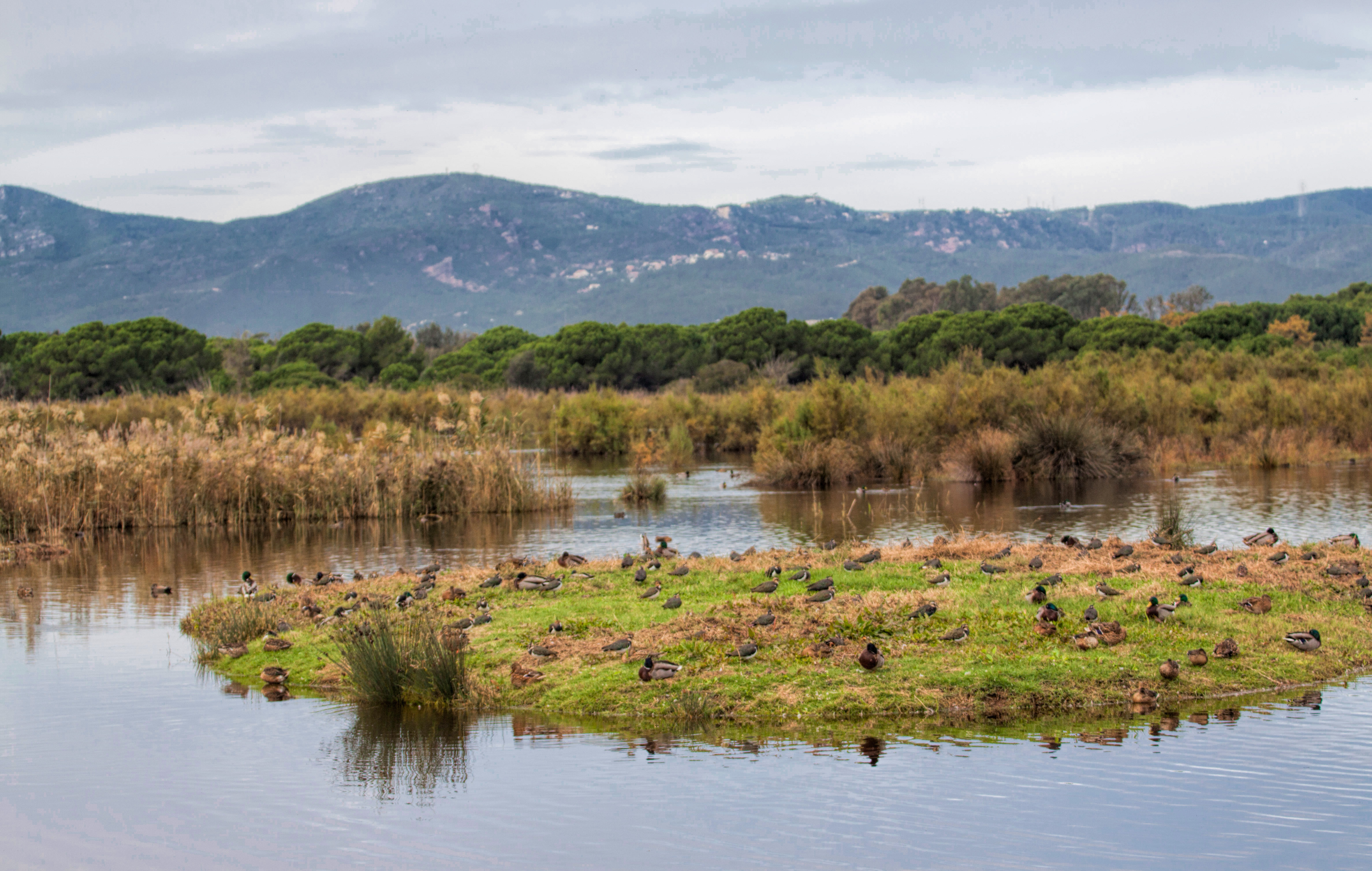 This is a a photo of a natural area in Catalonia, Spain, with id: ES510064